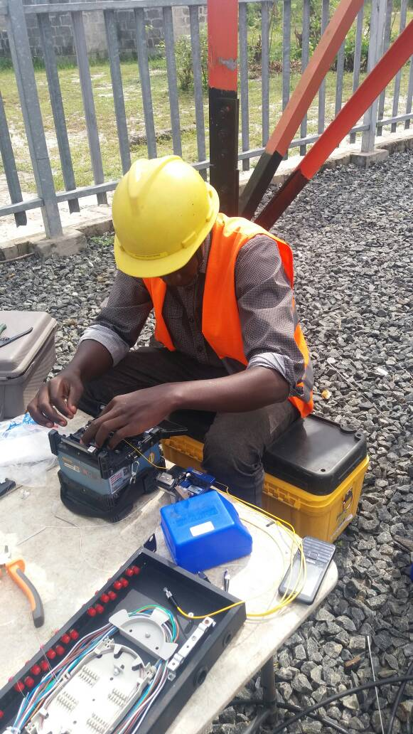 I spliced 48 core for the ODF at one of TTCL site This is an image of "African people at work" from Tanzania